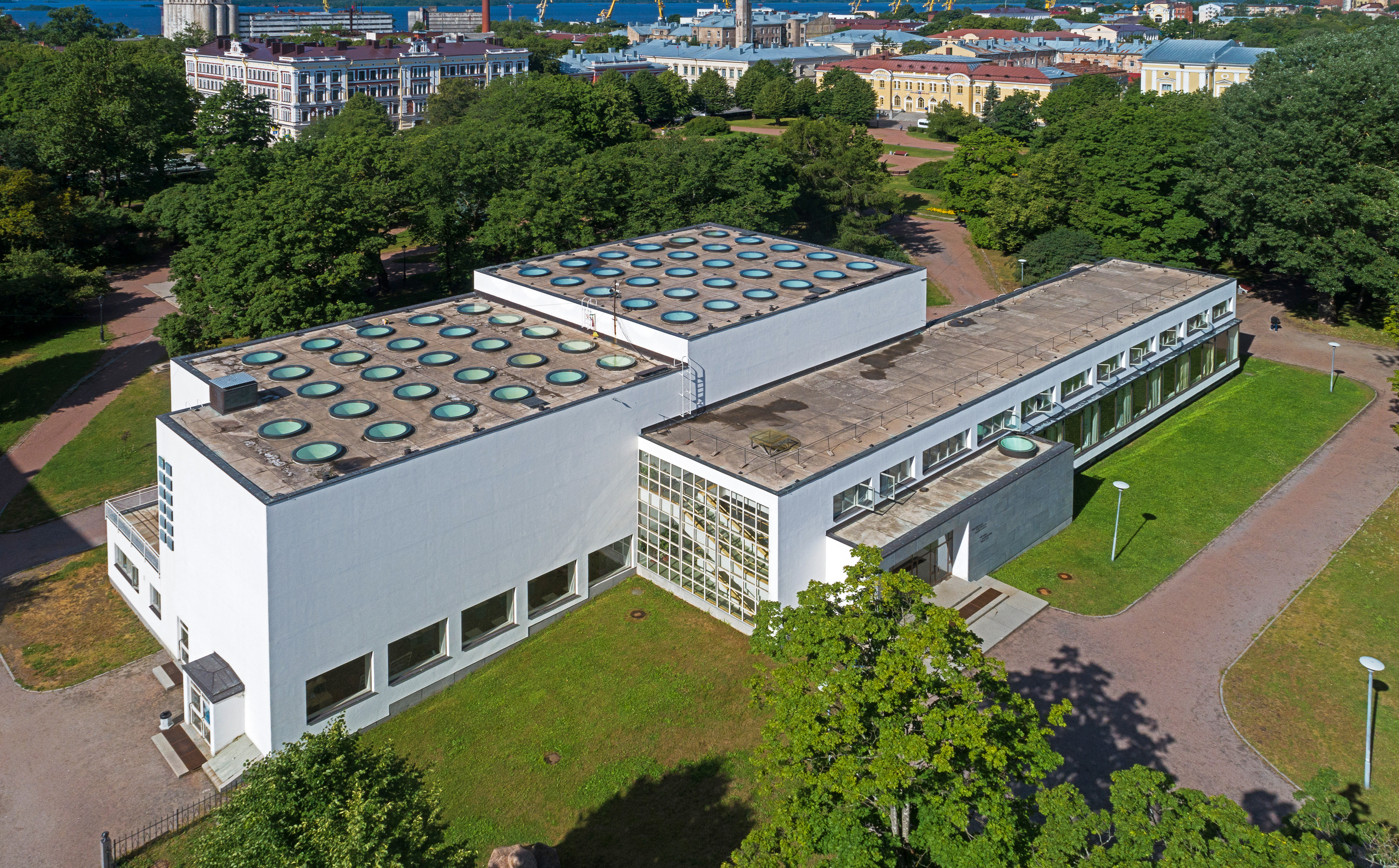 Vyborg Library = Alvar Aalto Library, Suvorovsky Avenue 4, Vyborg, Leningrad oblast, Russia